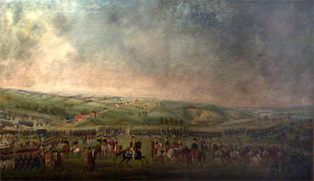 The assembly of the Militia before the Battle of Baltimore